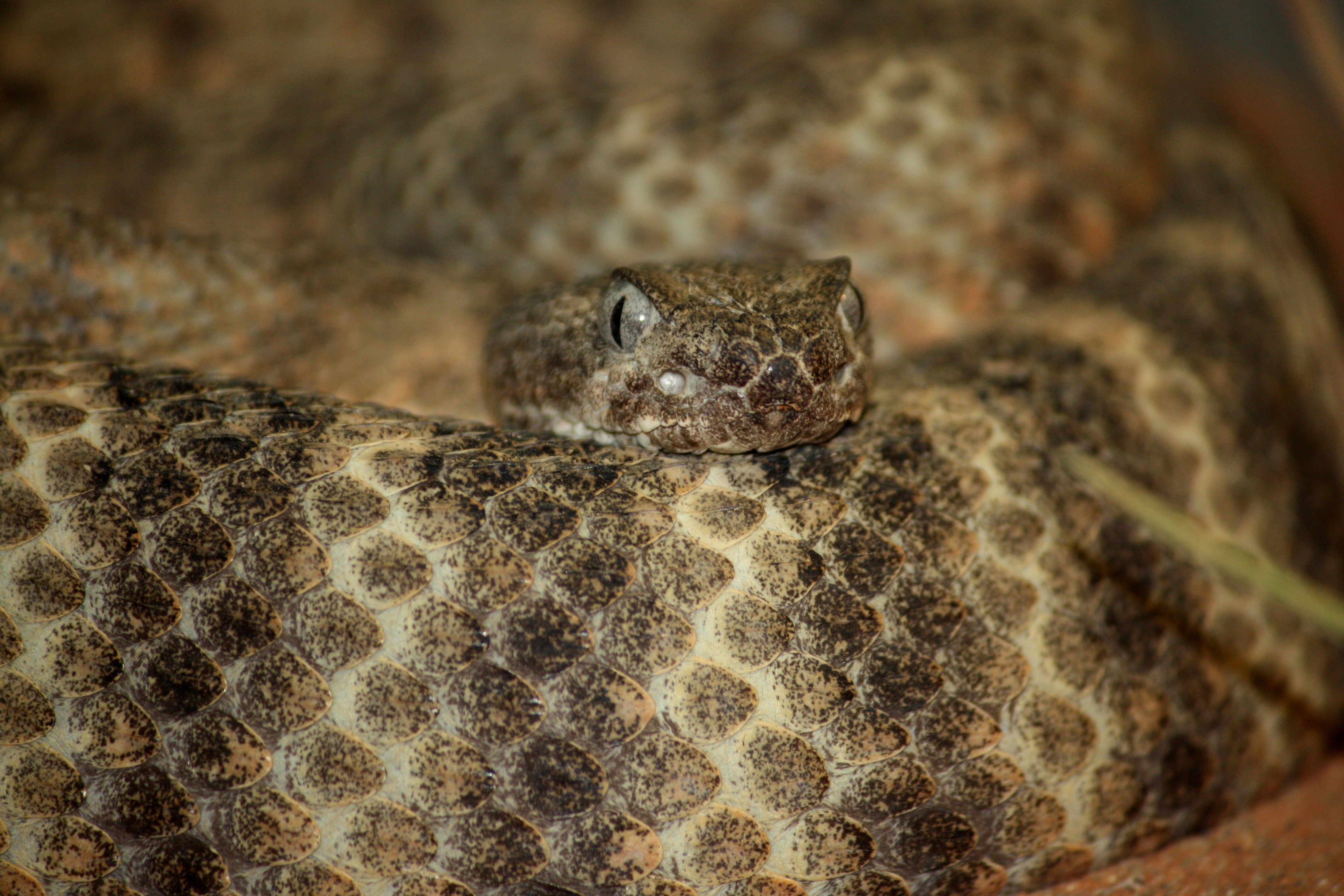 Crotalus tigris at Louisville Zoo